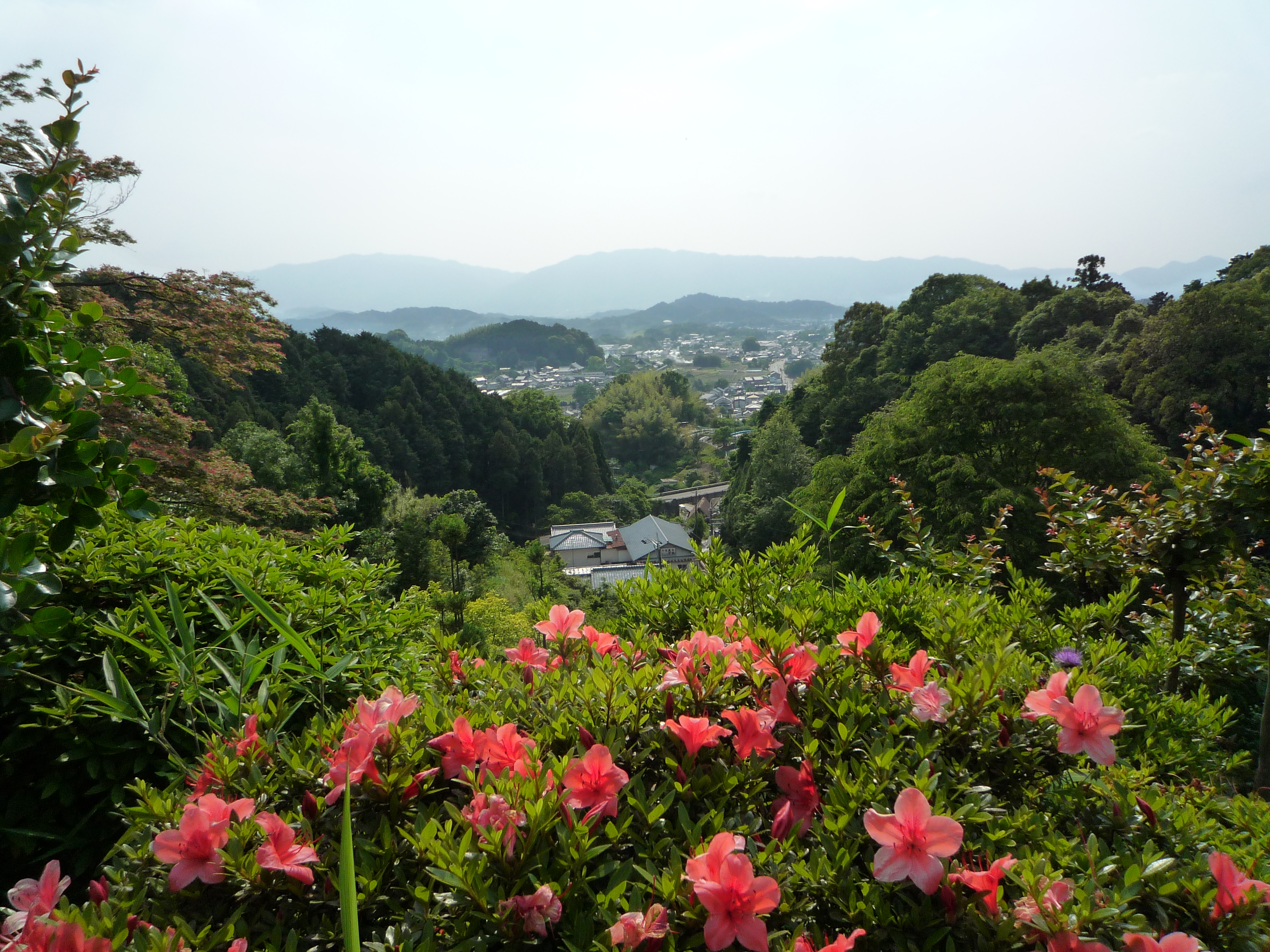 asuka,nara asuka